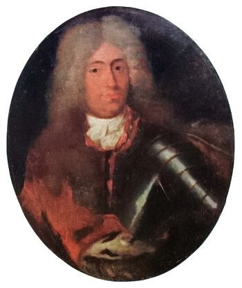 Portrait of Adolf Frederick II, Duke of Mecklenburg-Strelitz (1658-1708)